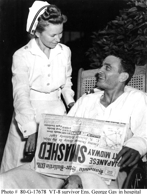 Ensign George H. Gay, sole survivor of V-8 attack; battle of Midway, June 1942